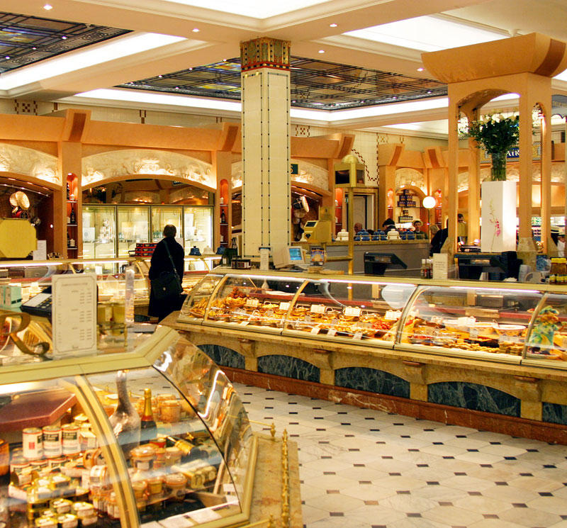 Art Nouveau in Harrods Food Department Halls in London,located 87-135 Brompton Rd, Knightsbridge